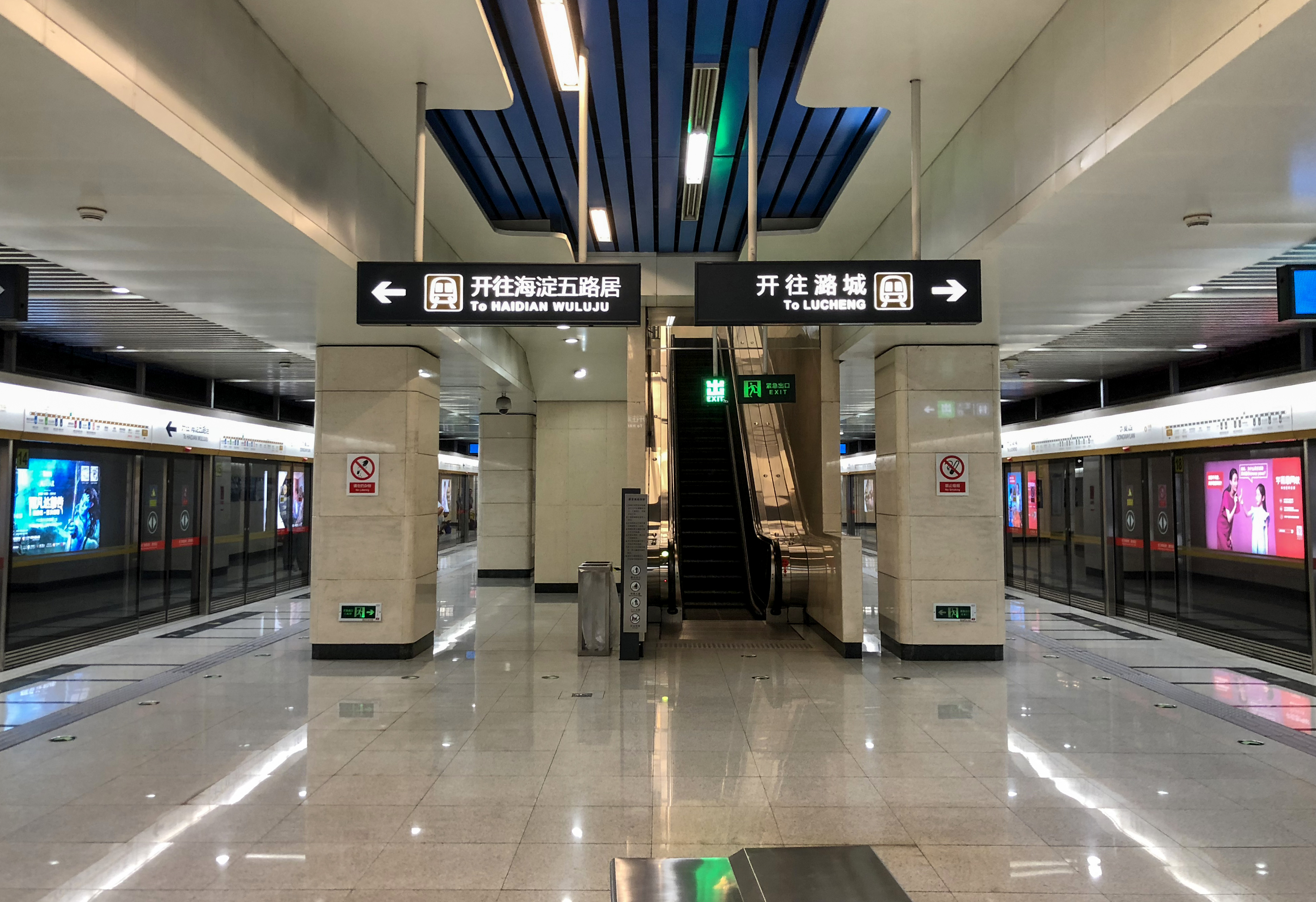 The blue belt on the ceiling stands for Hai River, showing its tranquillity.